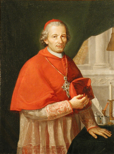 Francesco Fontana, cardinal of the Roman Catholic Church